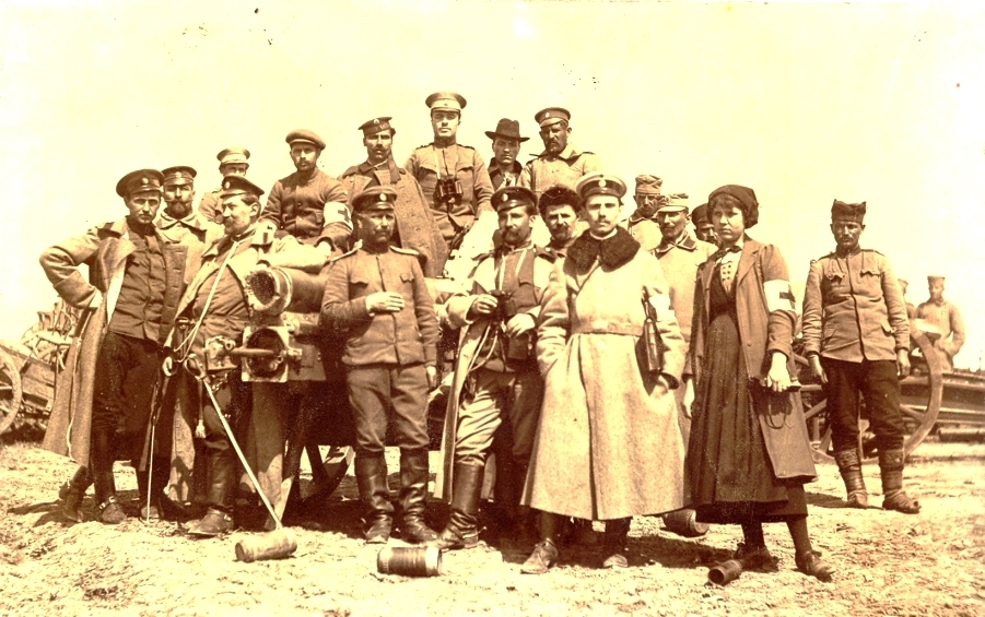 Bulgarian scientist Asen Zlatarov (1885-1936) - photo with his brothers-in-arms, 1913